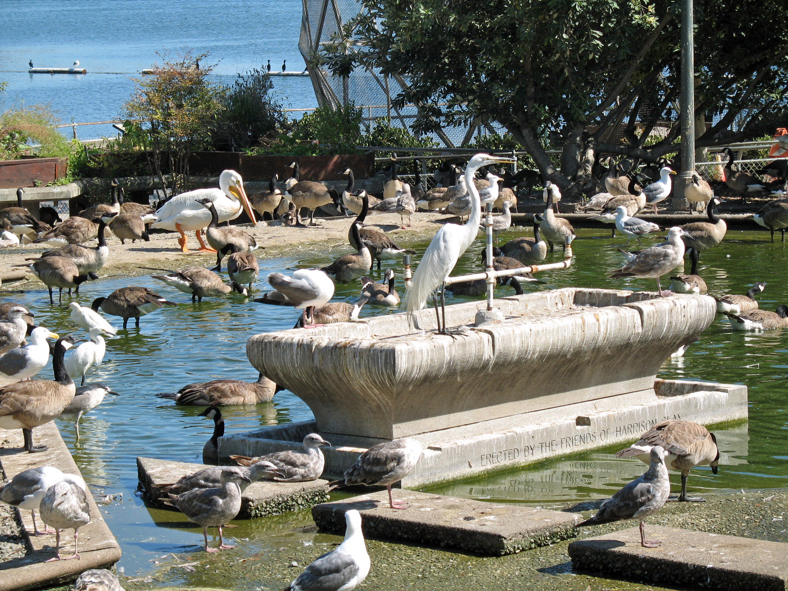 National Register of Historic Places listings in Alameda County, California. Lake Merritt Wild Duck Refuge, Lakeside Park, Grand Ave., Oakland, CA. Photographed June 27, 2009.